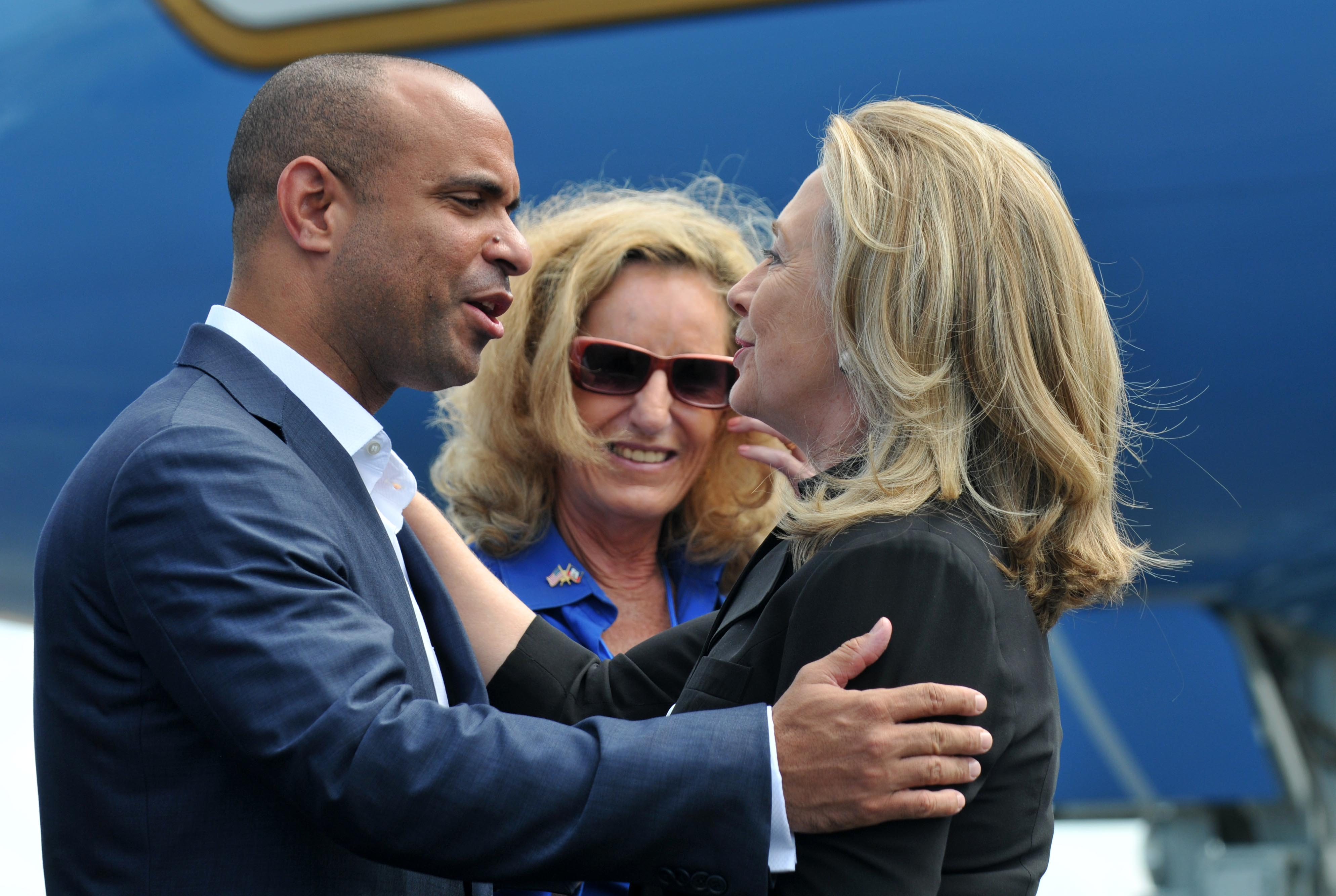 U.S. Secretary of State Hillary Clinton is greeted by Haitian Prime Minister Laurent Lamothe and U.S. Ambassador to Haiti Pamela White upon her arrival in Cap Haitien, Haiti, October 22, 2012. [Photo copyright Kendra Helmer/USAID. Photo credit is mandatory.]